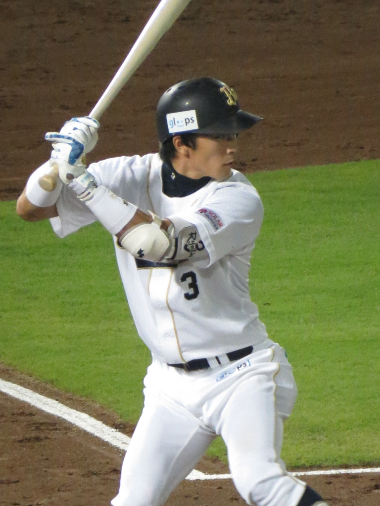 Ryoichi Adachi, infielder of the Orix Buffaloes, at Kobe Sports Park Baseball Stadium.